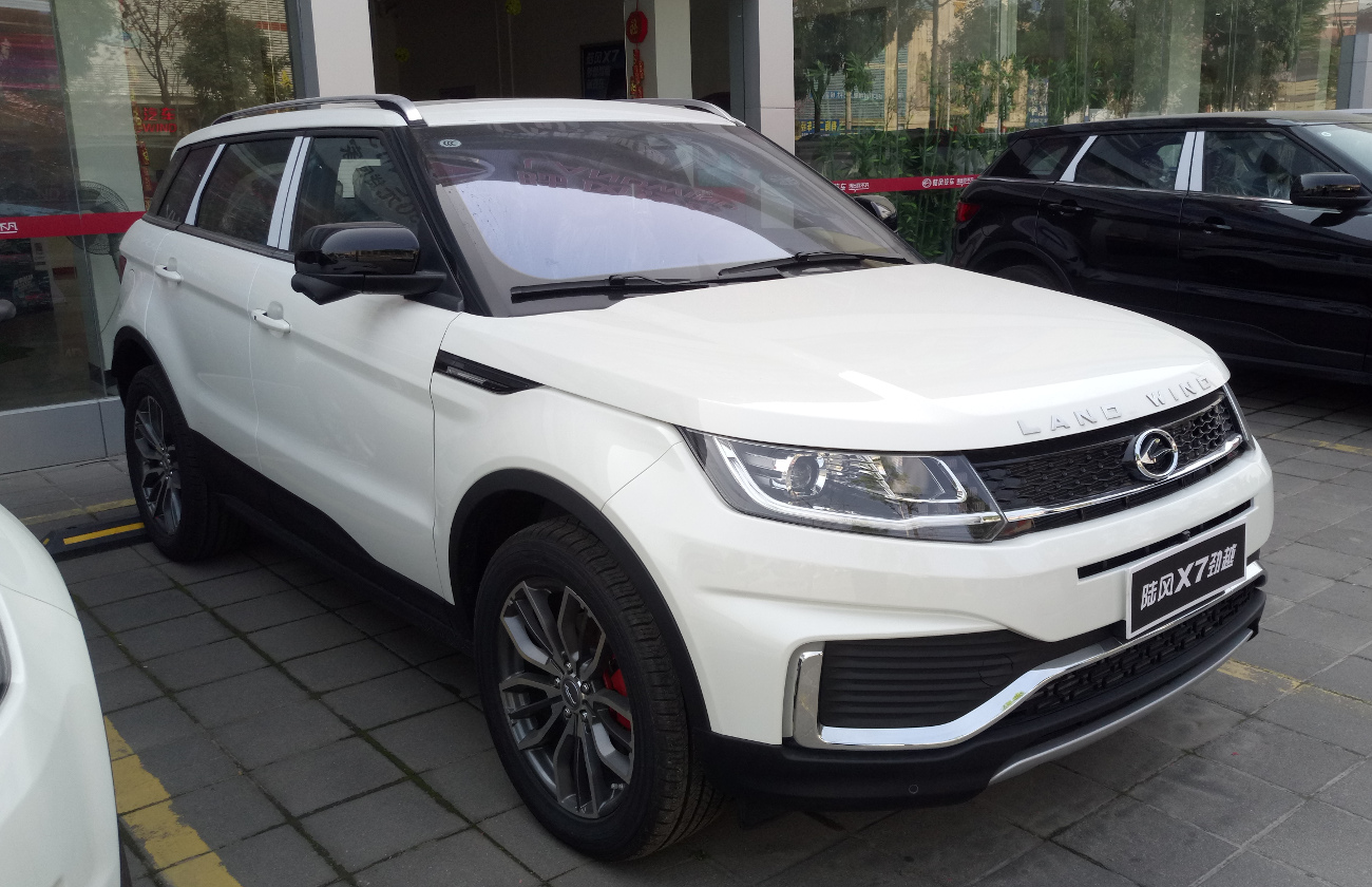 Landwind X7 facelift photographed in Guangzhou, Guangdong province, China.